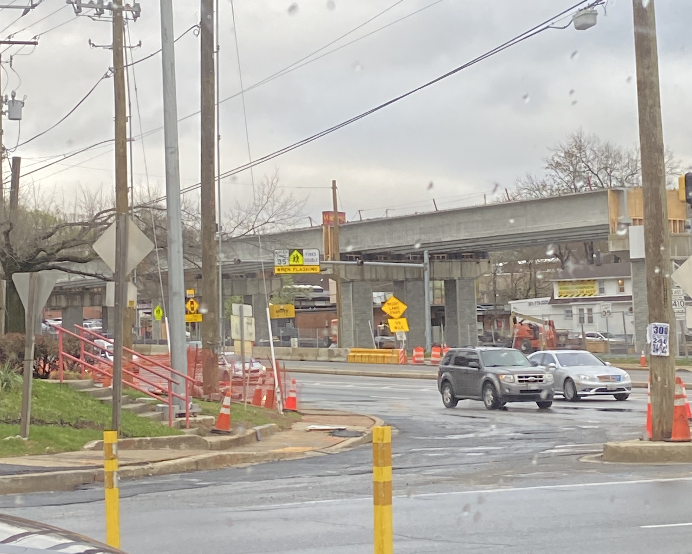 Construction of Riverdale Park-Kenilworth Station in Riverdale MD for future Purple Line service.